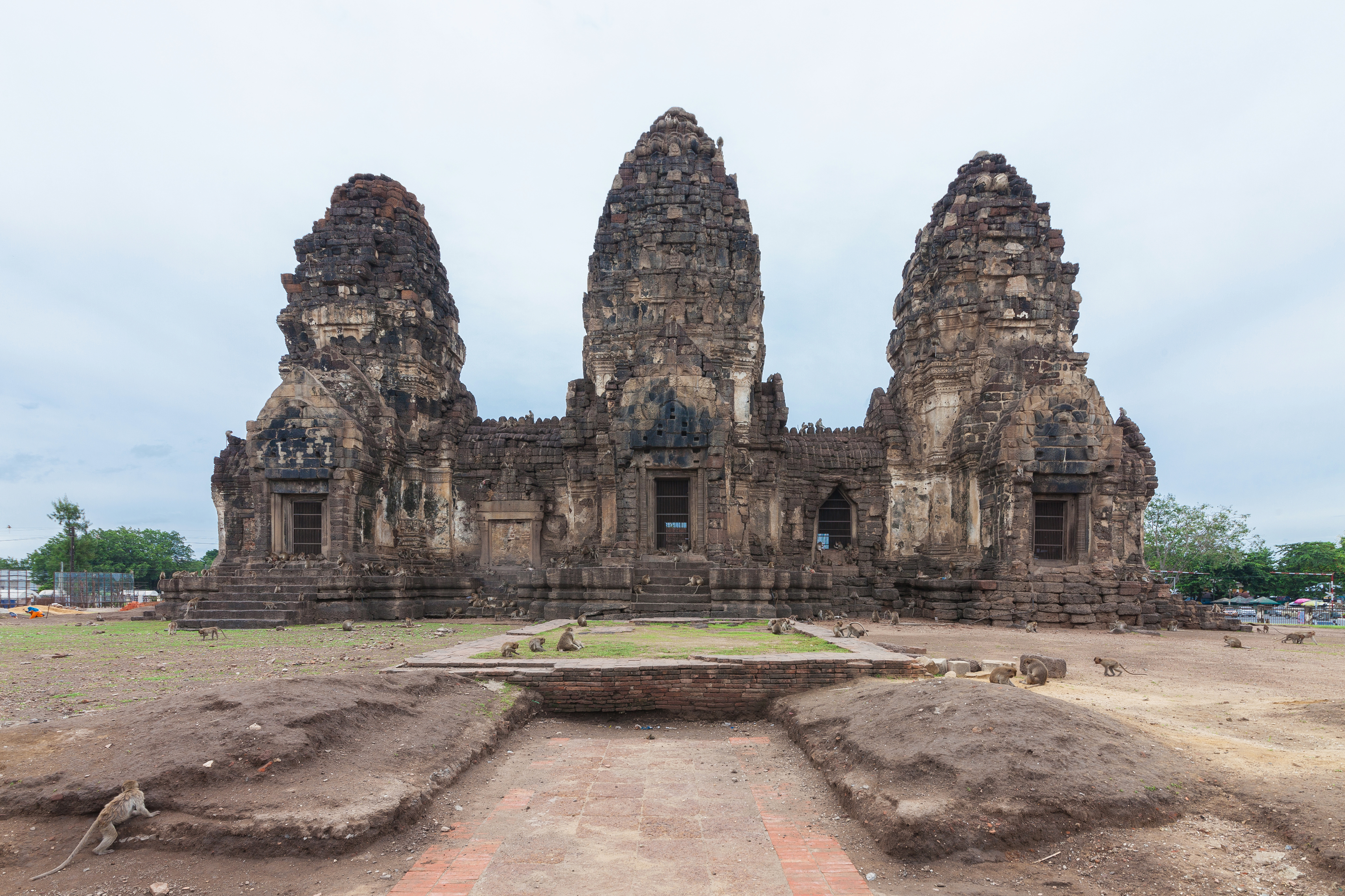 Phra Prang Sam Yot ("three-pronged holy tower") in Lopburi, Mueang Lop Buri District, Lop Buri Province, Thailand.